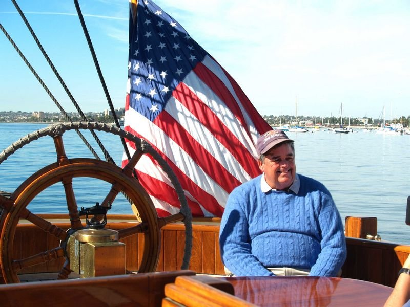 A photo of America's Cup winner Dennis Conner while aboard a replica of the original Cup winner "The America" in San Diego Attribution to: Phil Konstantin